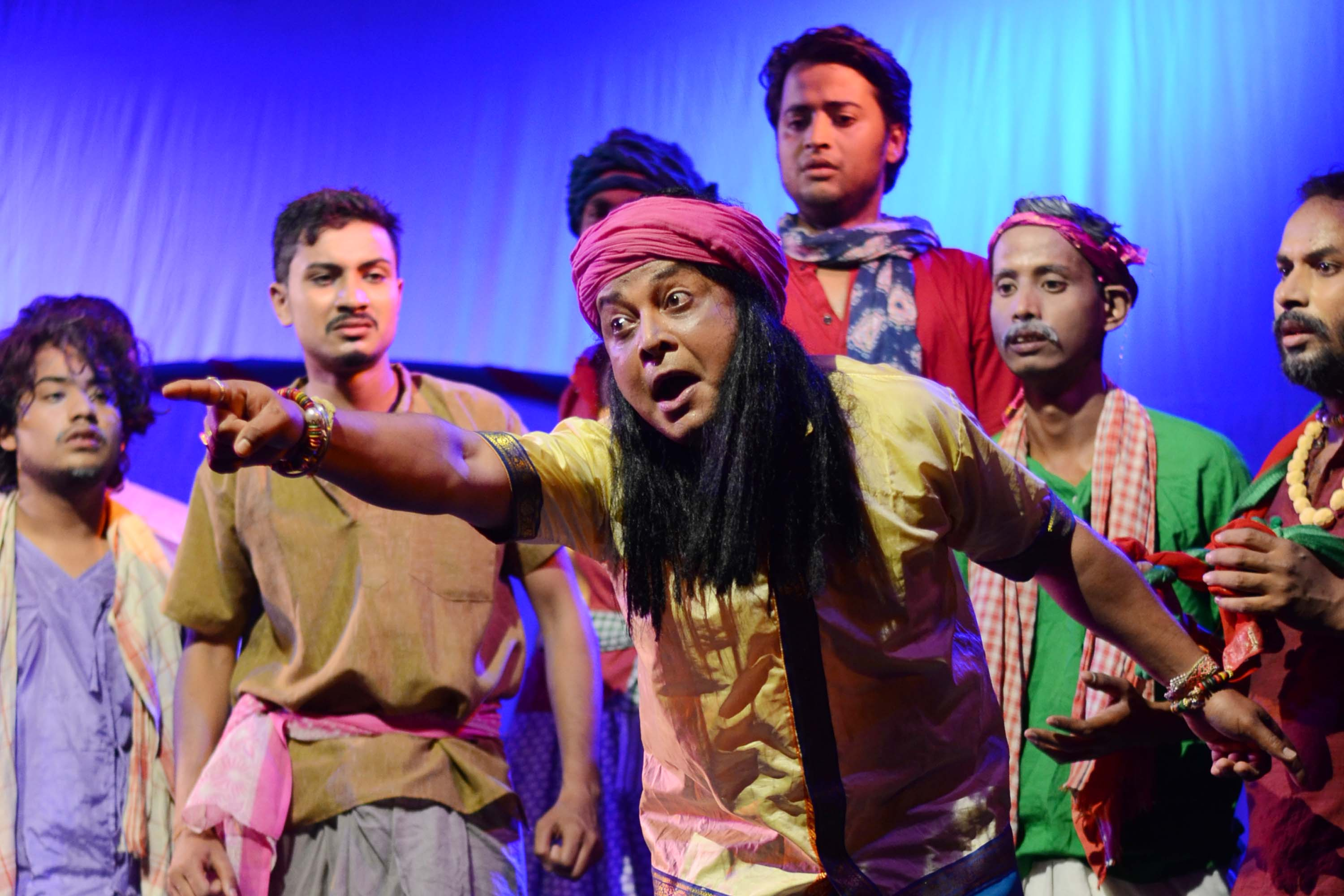 Actors of Abinaswar Gosthi performs the play"Surjya Mandirot Surjyasta" directed by Dipok Borah